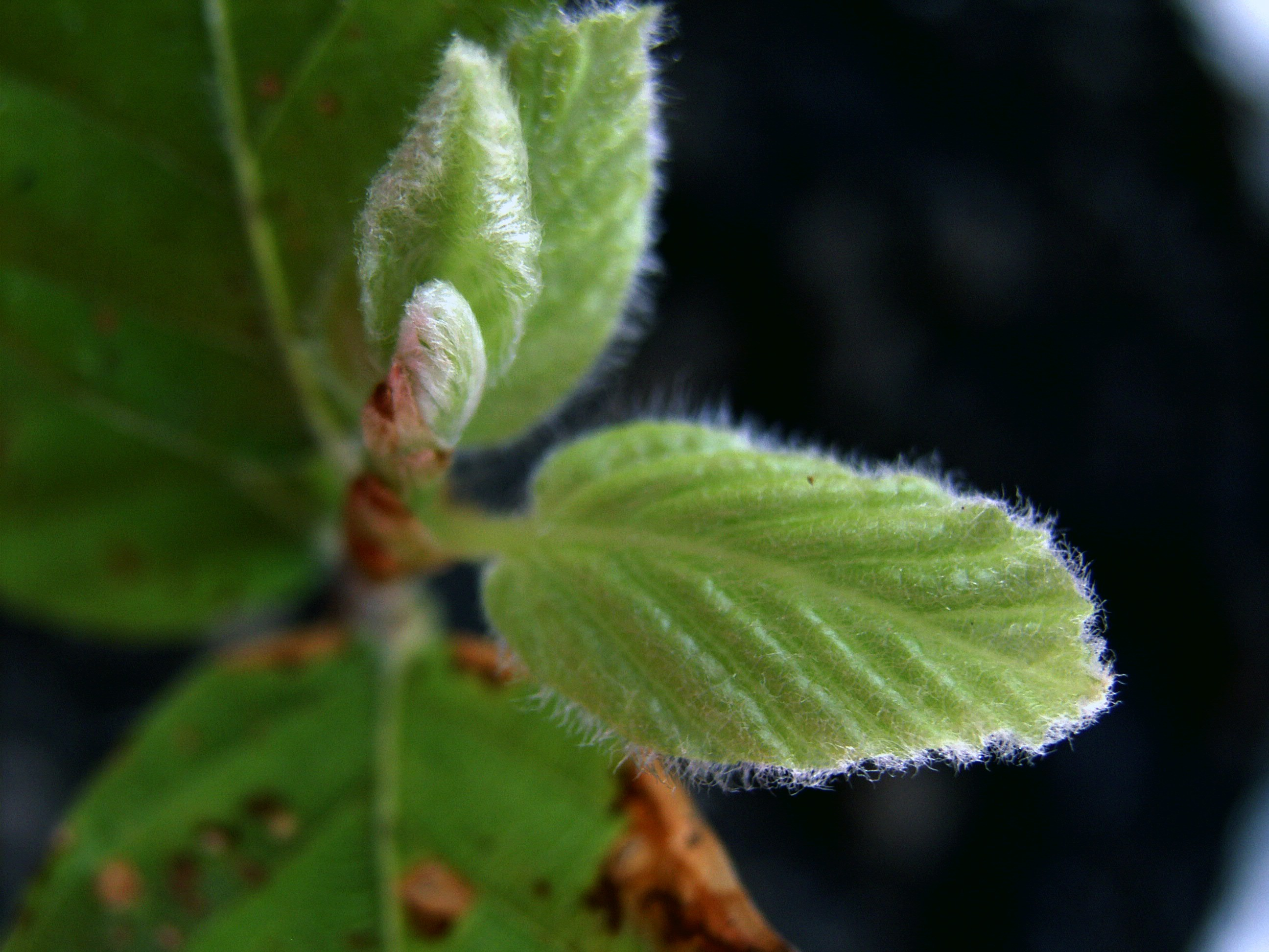 European Beech about 4 months old. New shoot with young leaves. The old leaves were infested by spider mites which were fought successfully.